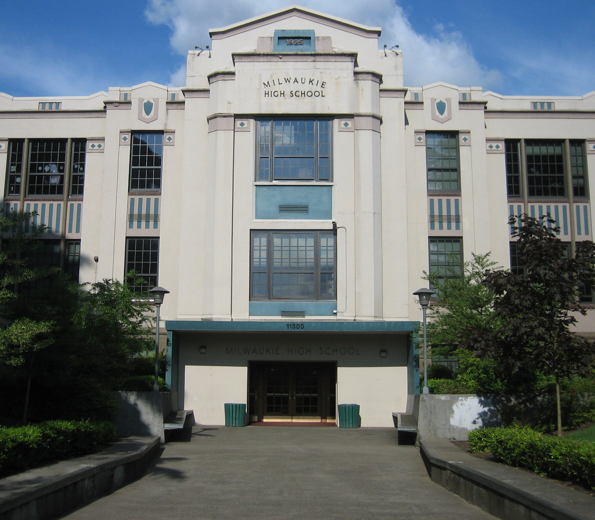 Front entrance of Milwaukie High School in Milwaukie, Oregon. This is a close shot that focuses on the entrance itself, but leaves out most of the landscaping.